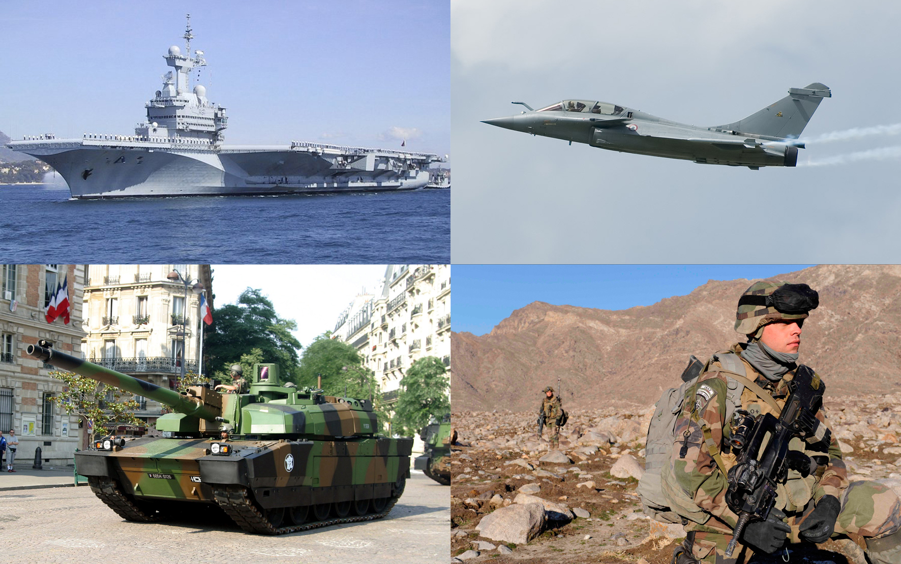 Collage of 4 photos of French military activities